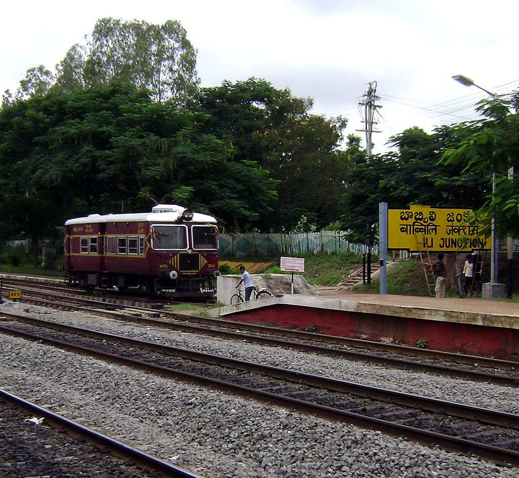 This photo in flickr taken by Viswa Chandra.Rajasekhar1961 (talk) 06:40, 21 January 2016 (UTC)